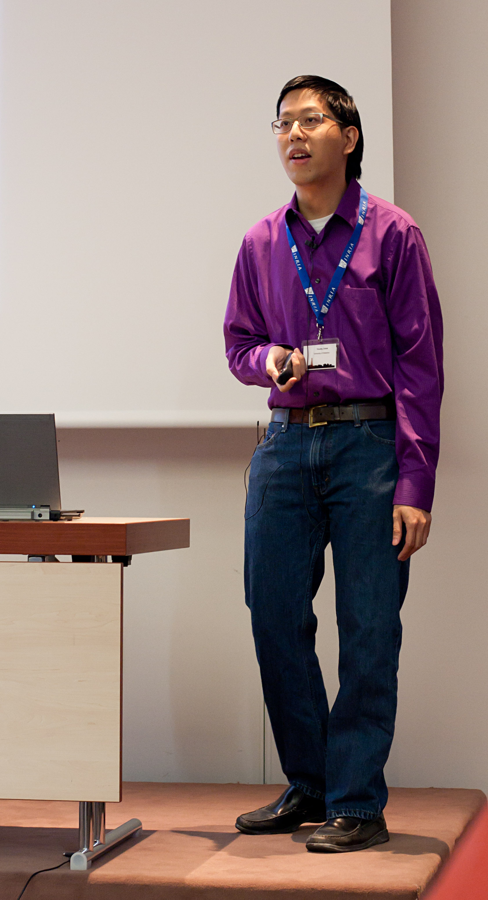 Timothy M. Chan giving the first talk at the 27th Annual Symposium on Computational Geometry in Paris, France